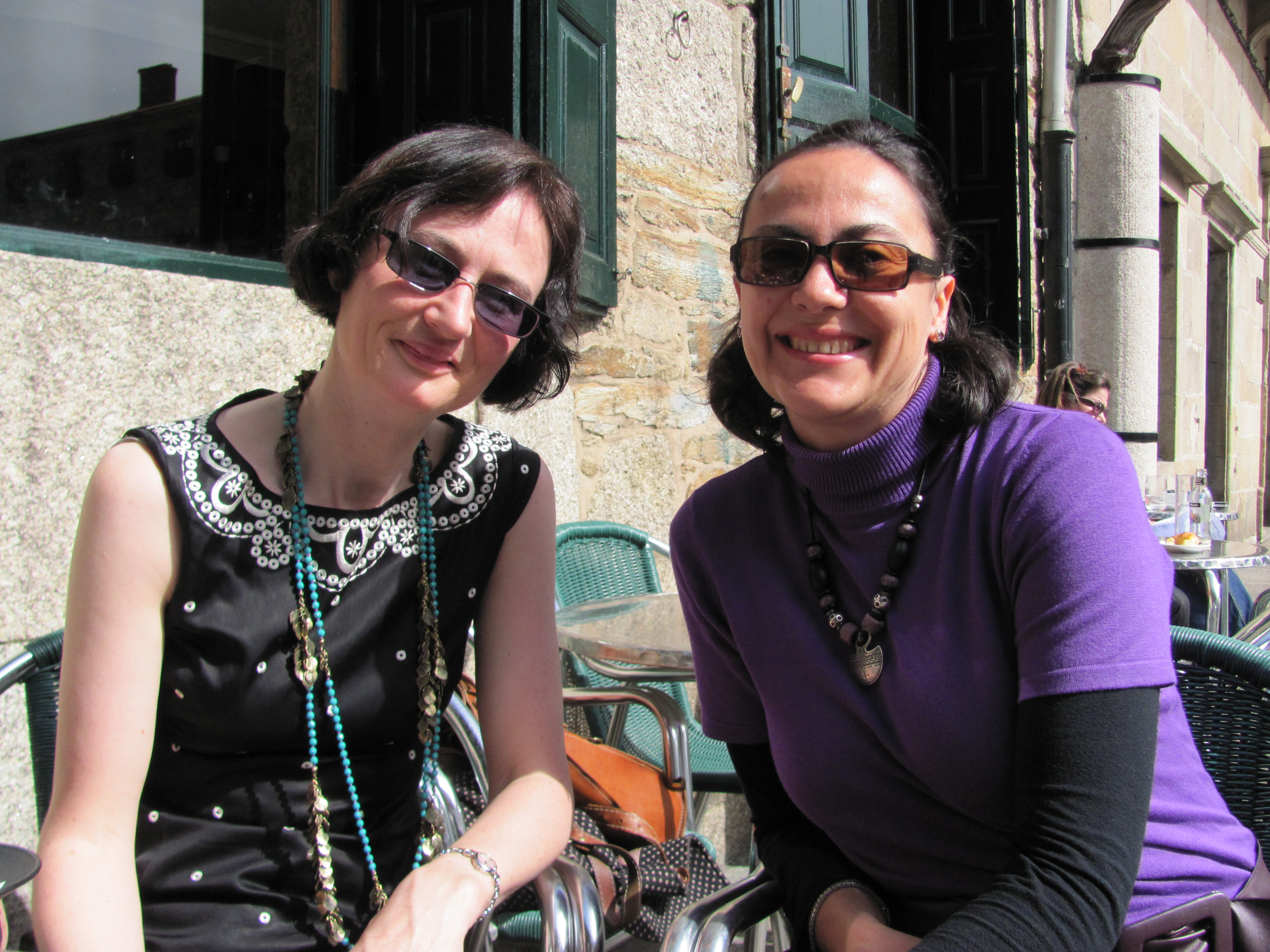 Tsvetanka Elenkova and Fiona Sampson, 2011